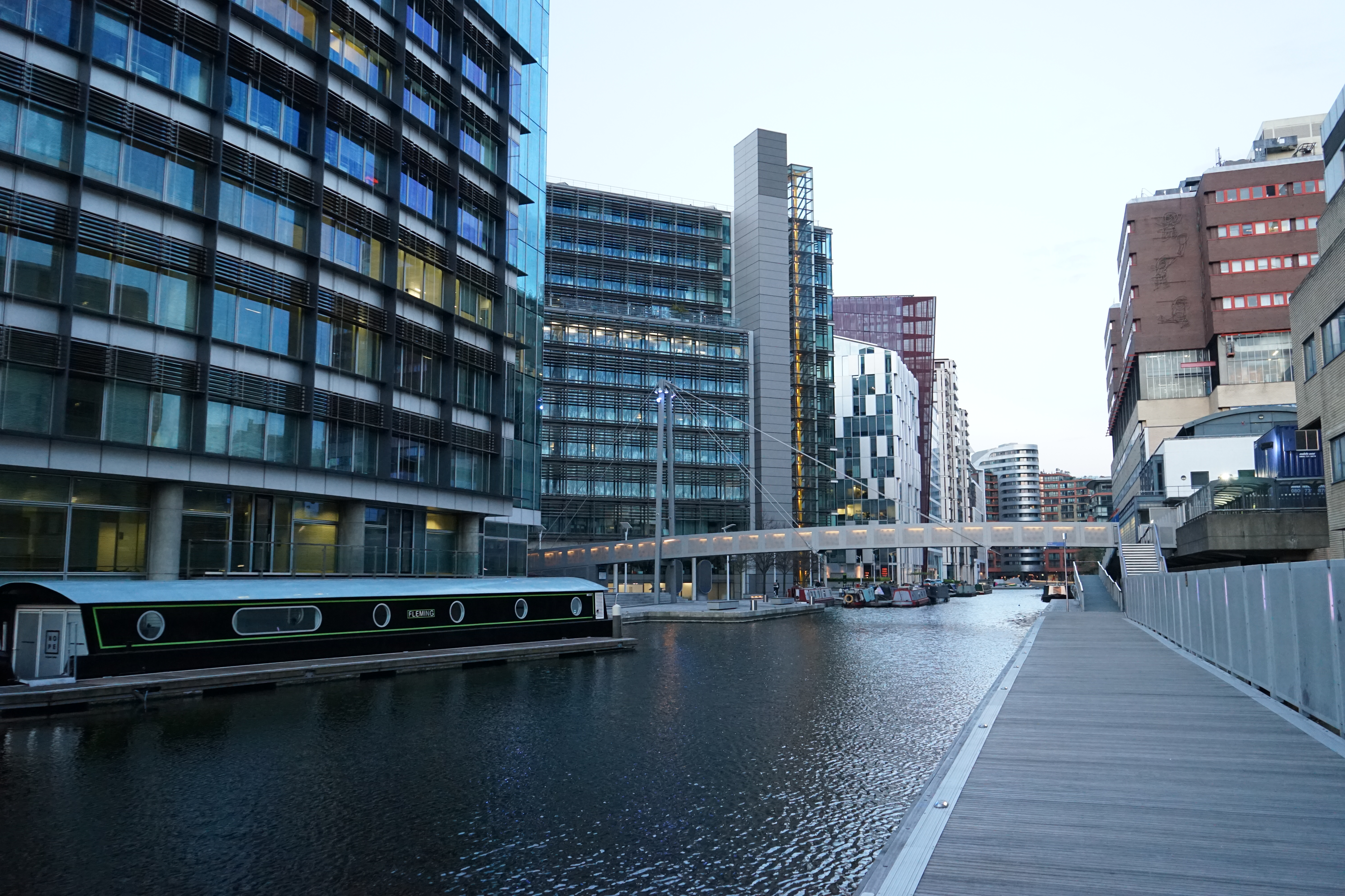 Paddington Basin near Paddington station.